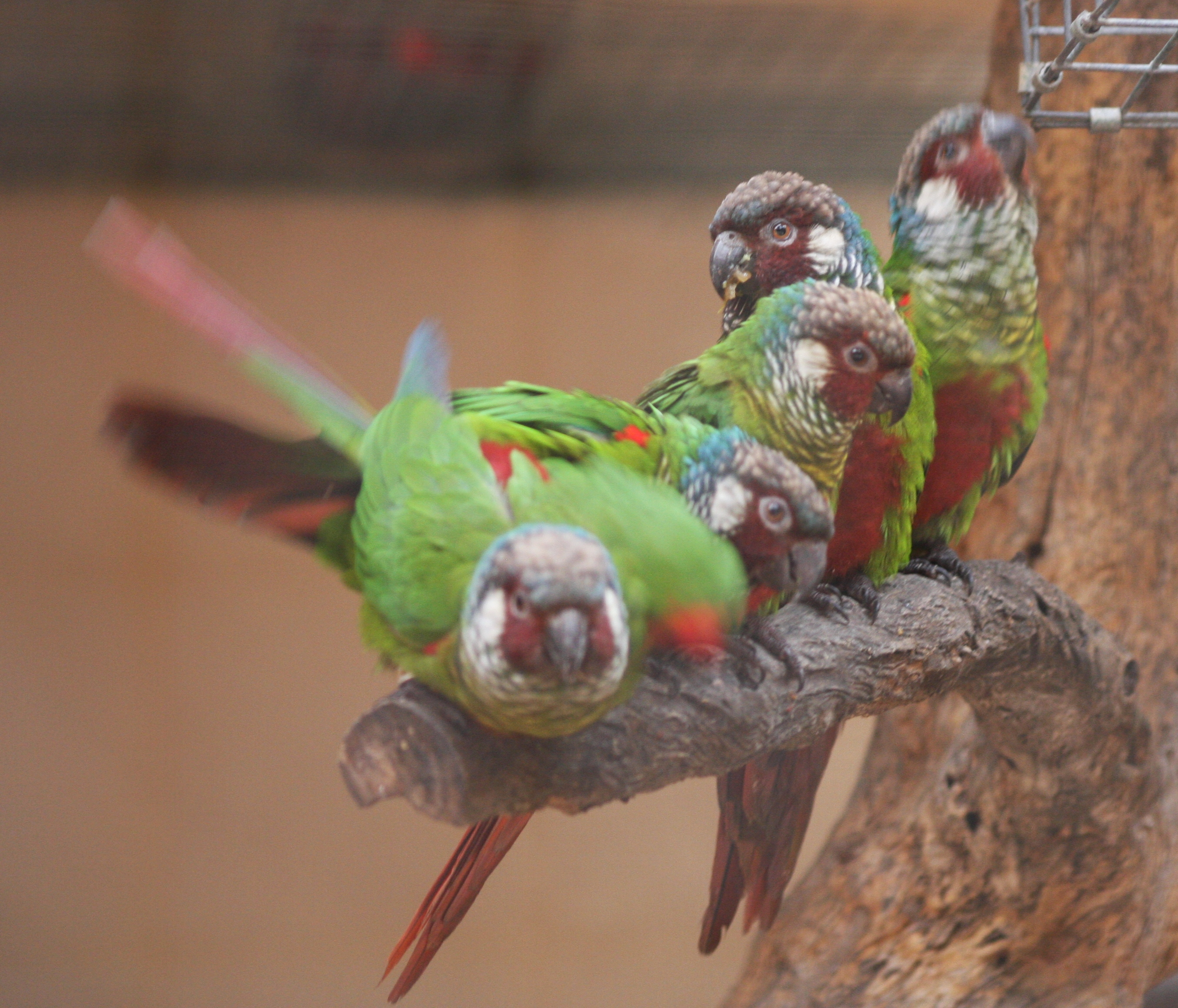 Several White-eared Parakeets (Pyrrhura_leucotis) at Palmitos Park, Gran Canaria, Spain.